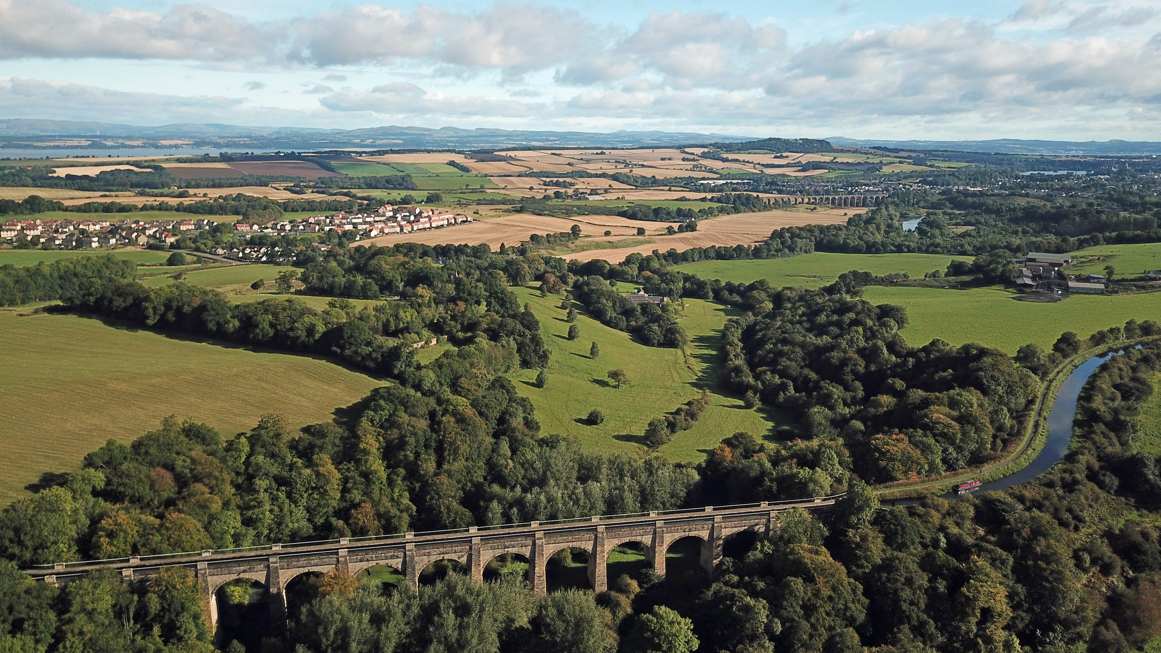 Avon Aqueduct Wikidata has entry Q4829178 with data related to this item.